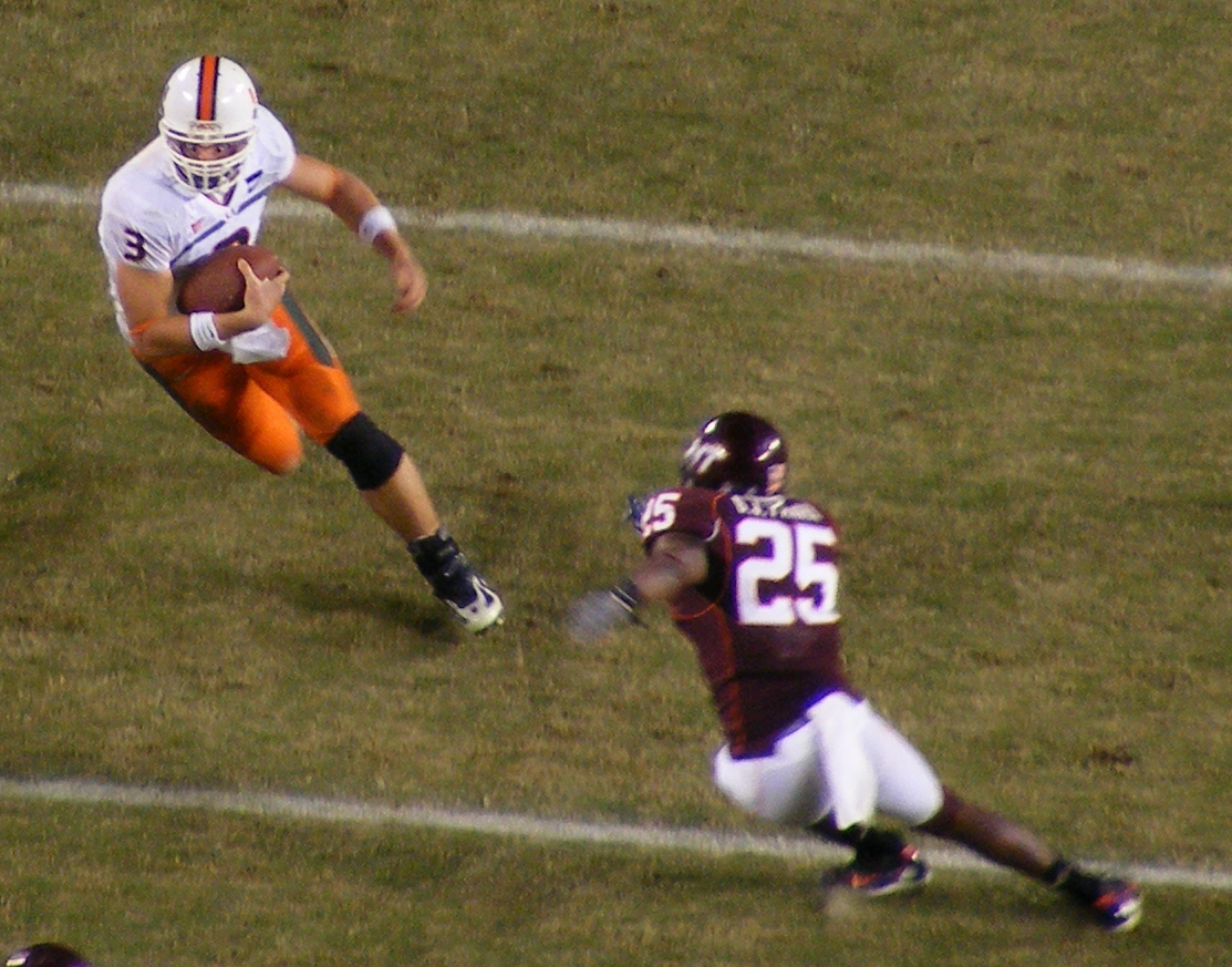 Kyle Wright runs the football at Virginia Tech